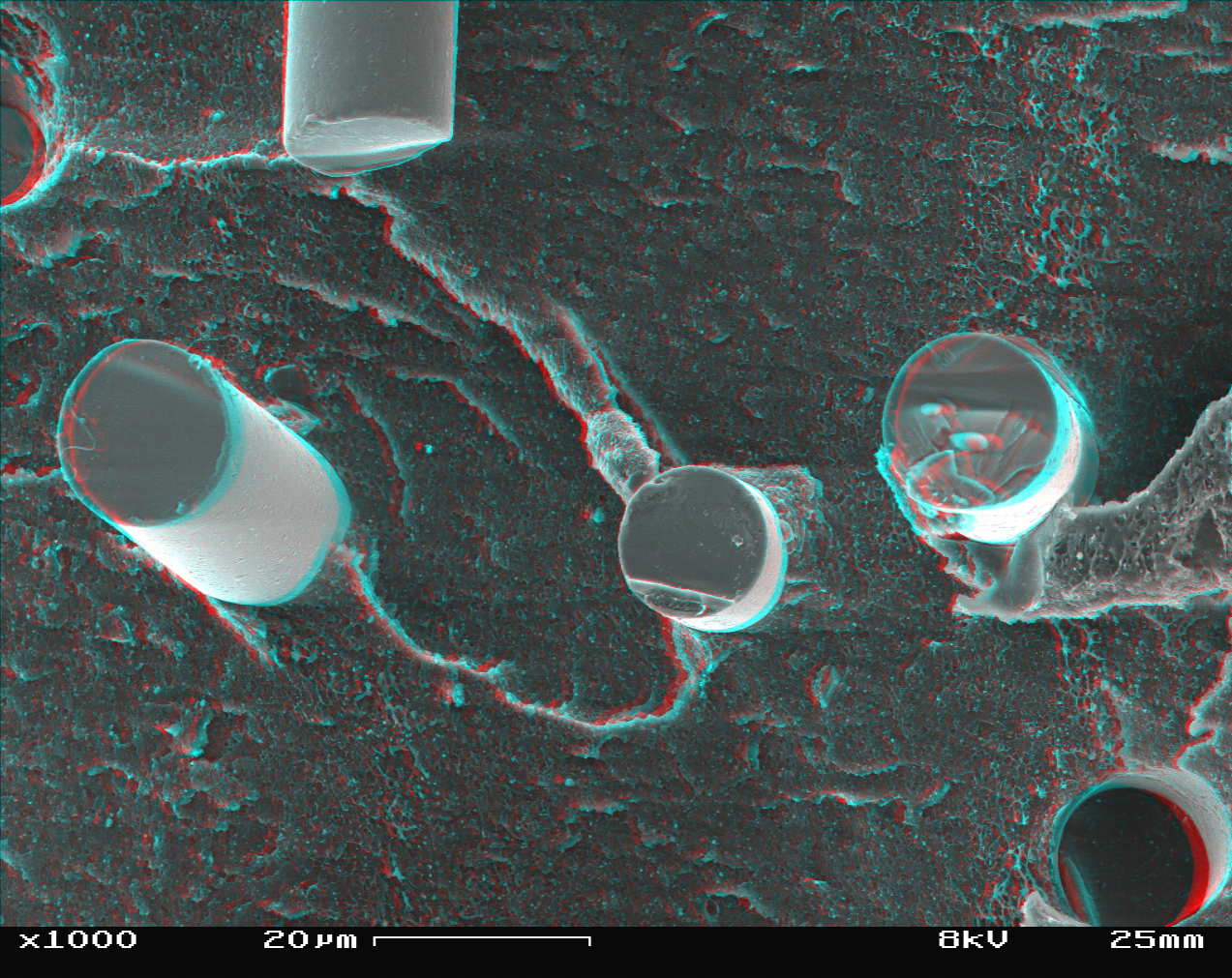 This is a stereoscopic SEM (scanning electron microscope) view of a fractured glass reinforced plastic after a 25 nm platinum sputter coating. Magnification 1000x (relative to medium format film).